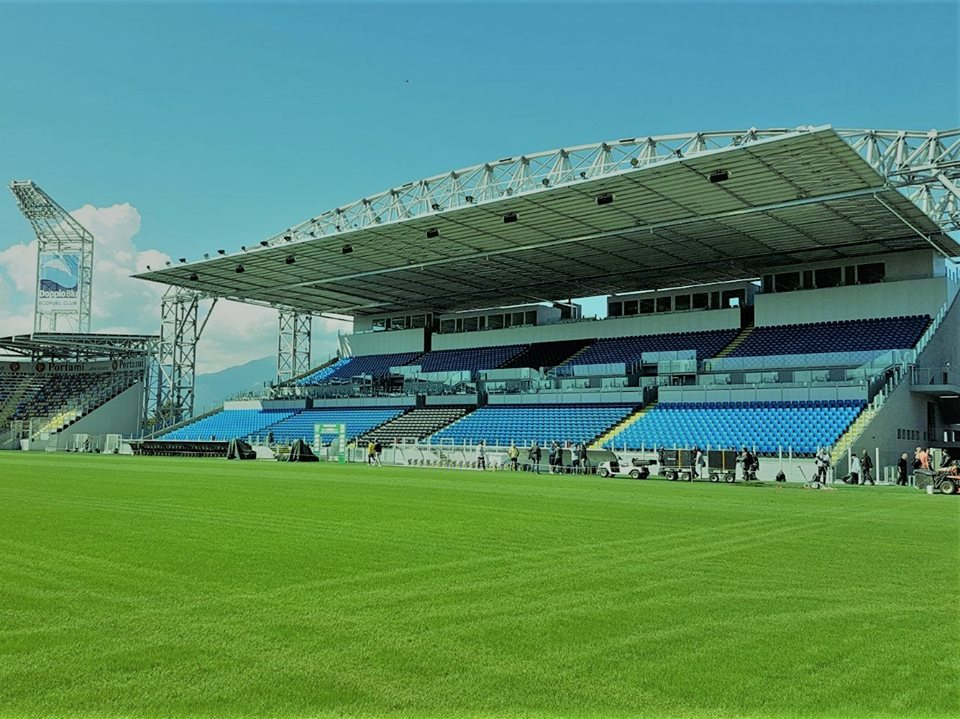 Benito Stirpe Stadium, Main Stand